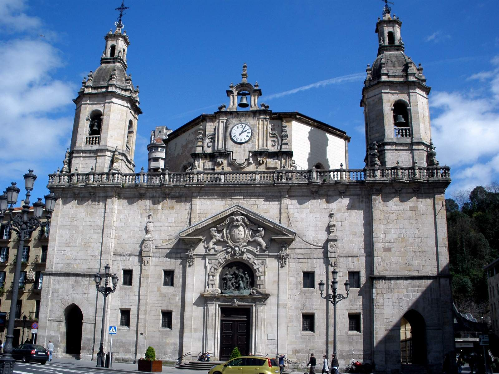 Iglesia de San Nicolás (Bilbao)